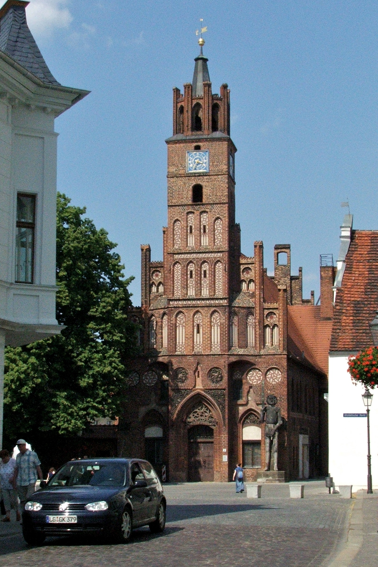 Town Hall, Brandenburg an der Havel